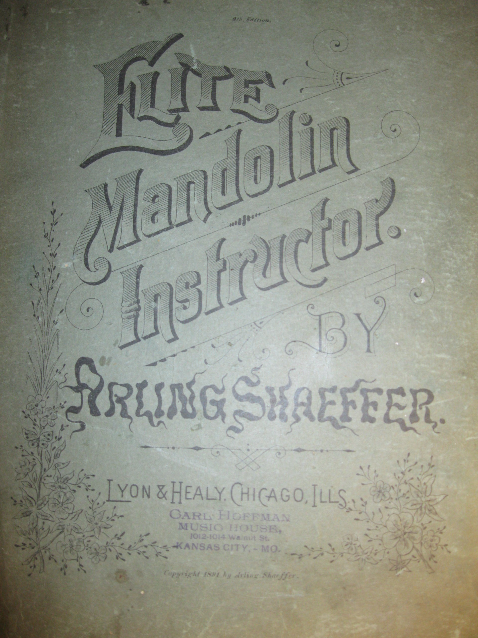 Cover of the book Elite Mandolin Instructor by Arling Shaeffer.